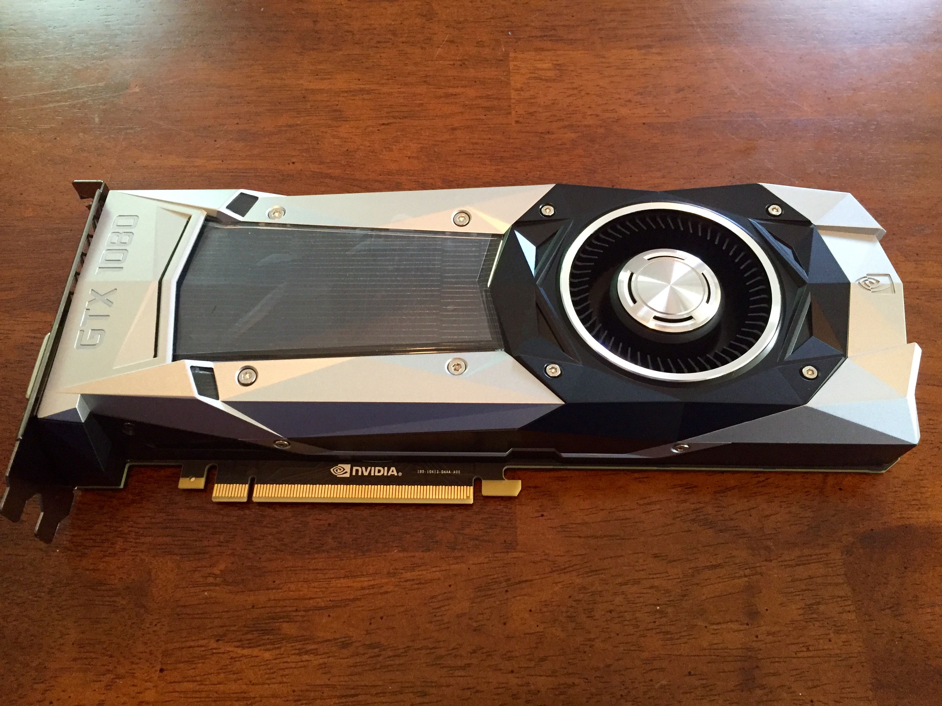 Geforce GTX 1080 Founders Edition Unboxing